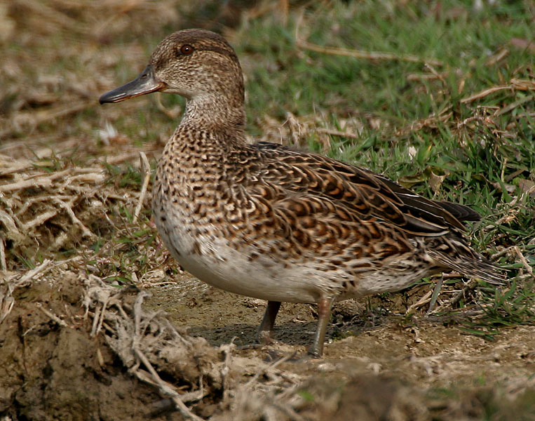 Common Teal or Eurasian Teal Anas crecca near Hodal, Faridabad, Haryana, India.